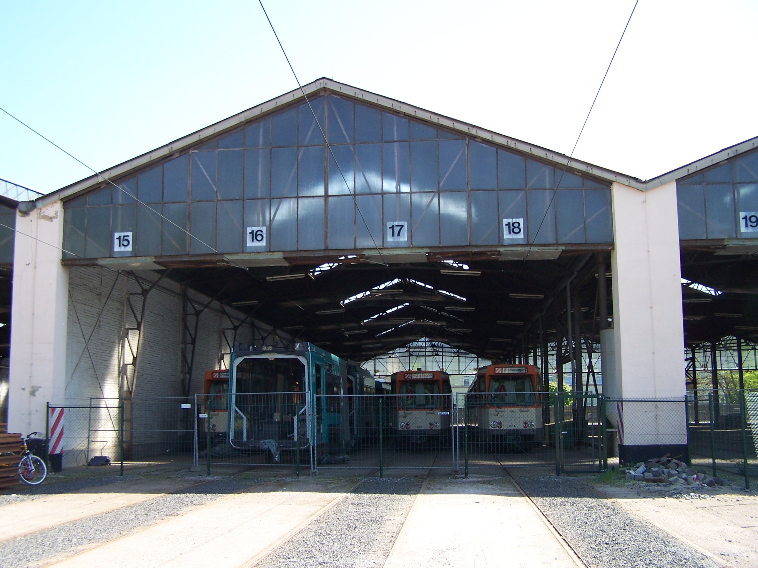 Backside of tram depot Frankfurt-Eckeneheim with retired Pt-railcars 652+654 and parts of crashed R-railcar 017, April 2007